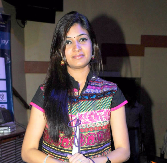 Alka Lamba at Arts In Motion's 'Dance With Joy' 2012 show